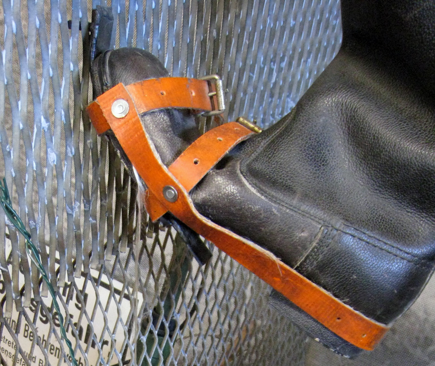 Wellington boot modified with metal hooks to enable its owner to climb the fences on the inner German border. On display at the Grenzmuseum Schifflersgrund.